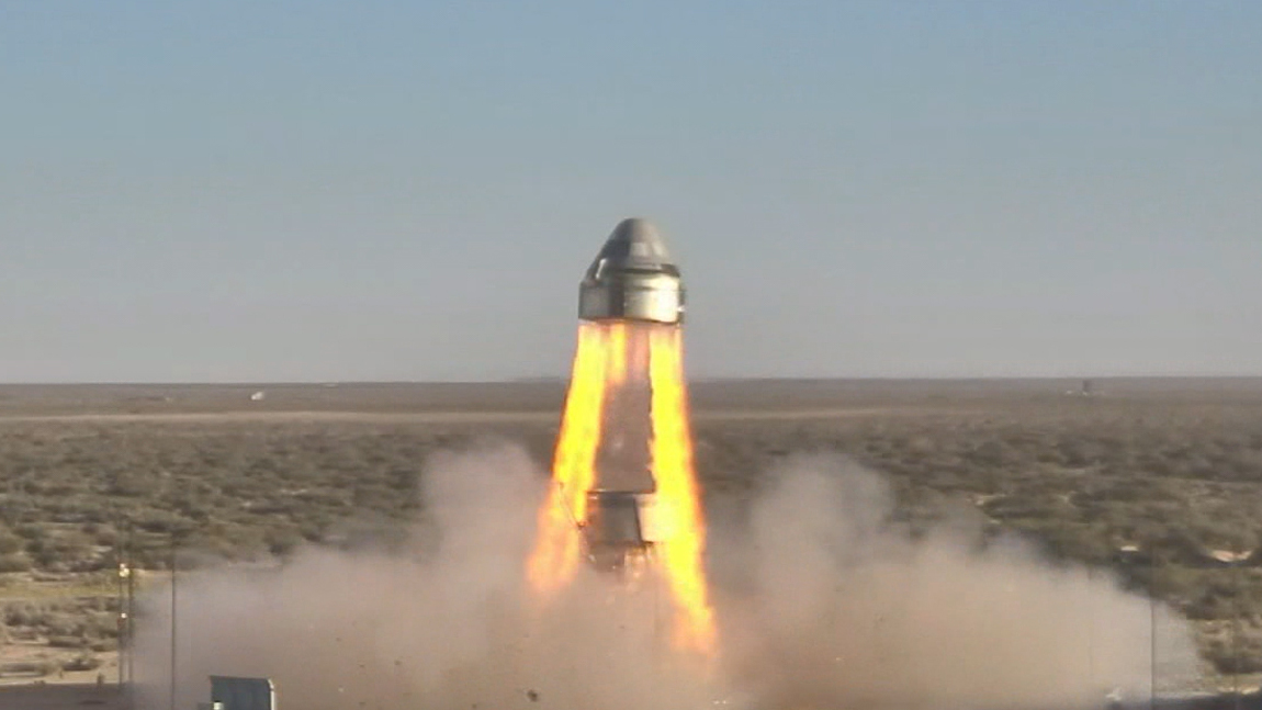 Boeing’s CST-100 Starliner’s four launch abort engines and several orbital maneuvering and attitude control thrusters ignite in the company’s Pad Abort Test, pushing the spacecraft away from the test stand with a combined 160,000 pounds of thrust, from Launch Complex 32 on White Sands Missile Rangein New Mexico. The test, conducted Nov. 4, 2019, was designed to verify that each of Starliner’s systems will function not only separately, but in concert, to protect astronauts by carrying them safely away from the launch pad in the unlikely event of an emergency prior to liftoff. The Pad Abort Test is Boeing’s first test flight for NASA’s Commercial Crew Program, which is working to launch astronauts on American rockets and spacecraft from American soil for the first time since 2011.